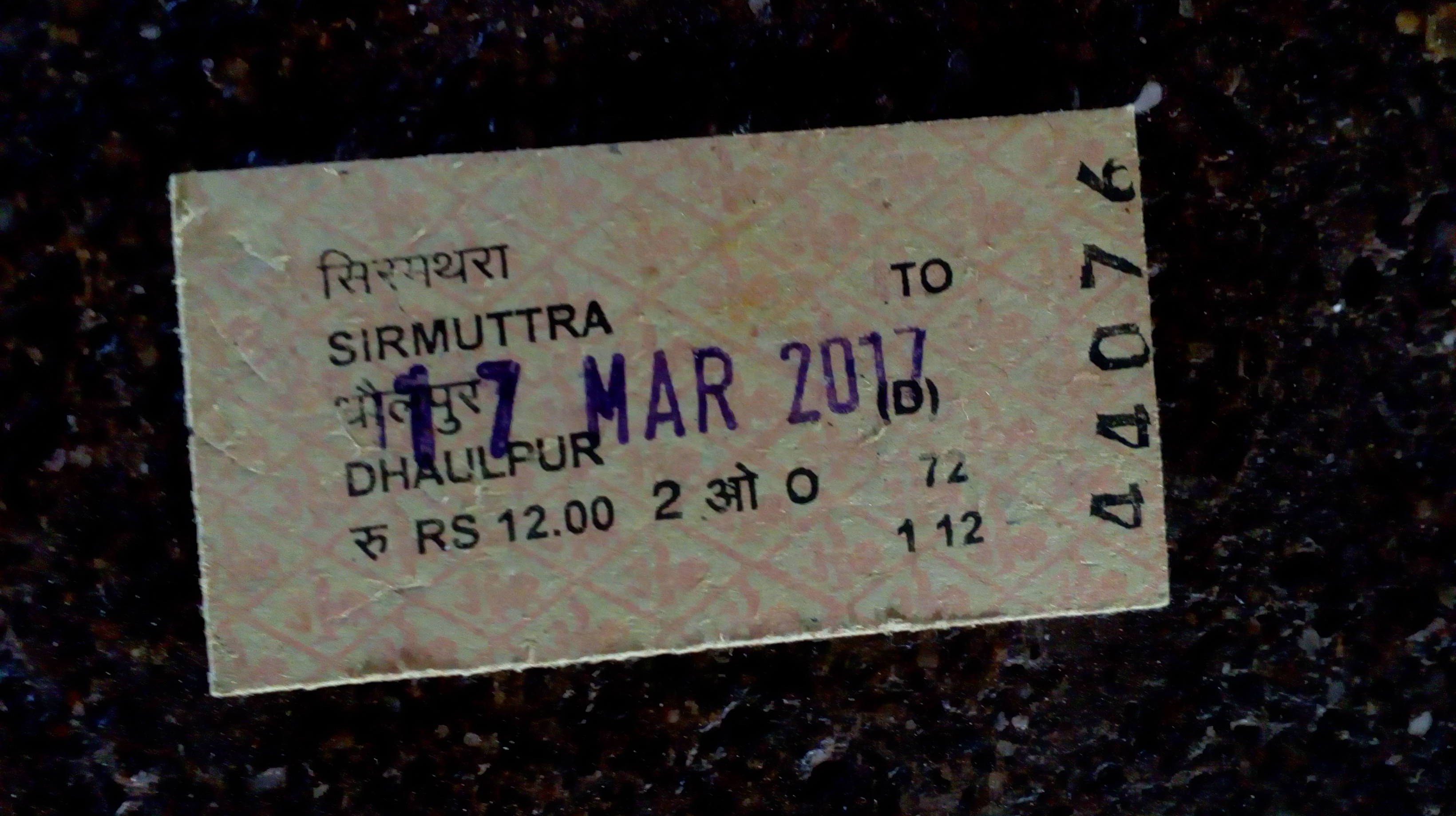 17 march 2017 dated ticket